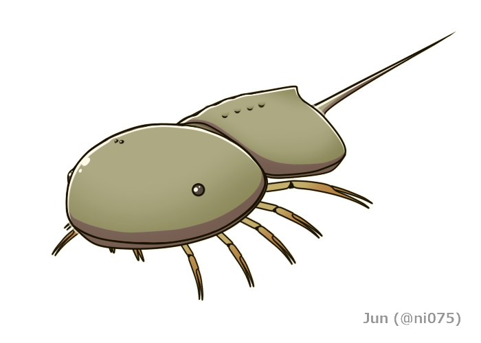 Reconstruction of Alanops magnificus. A carboniferous fresh water xiphosuran which capable to enroll itself.